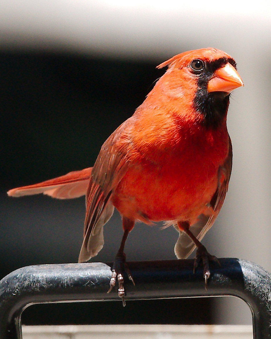 Male Northern Cardinal in Manhasset, NY